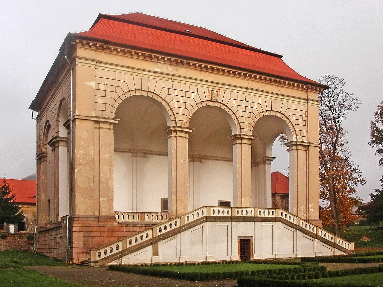 Jičín, Czech Republic. The Libosad loggia built in 1630-34 in the park of the same name.